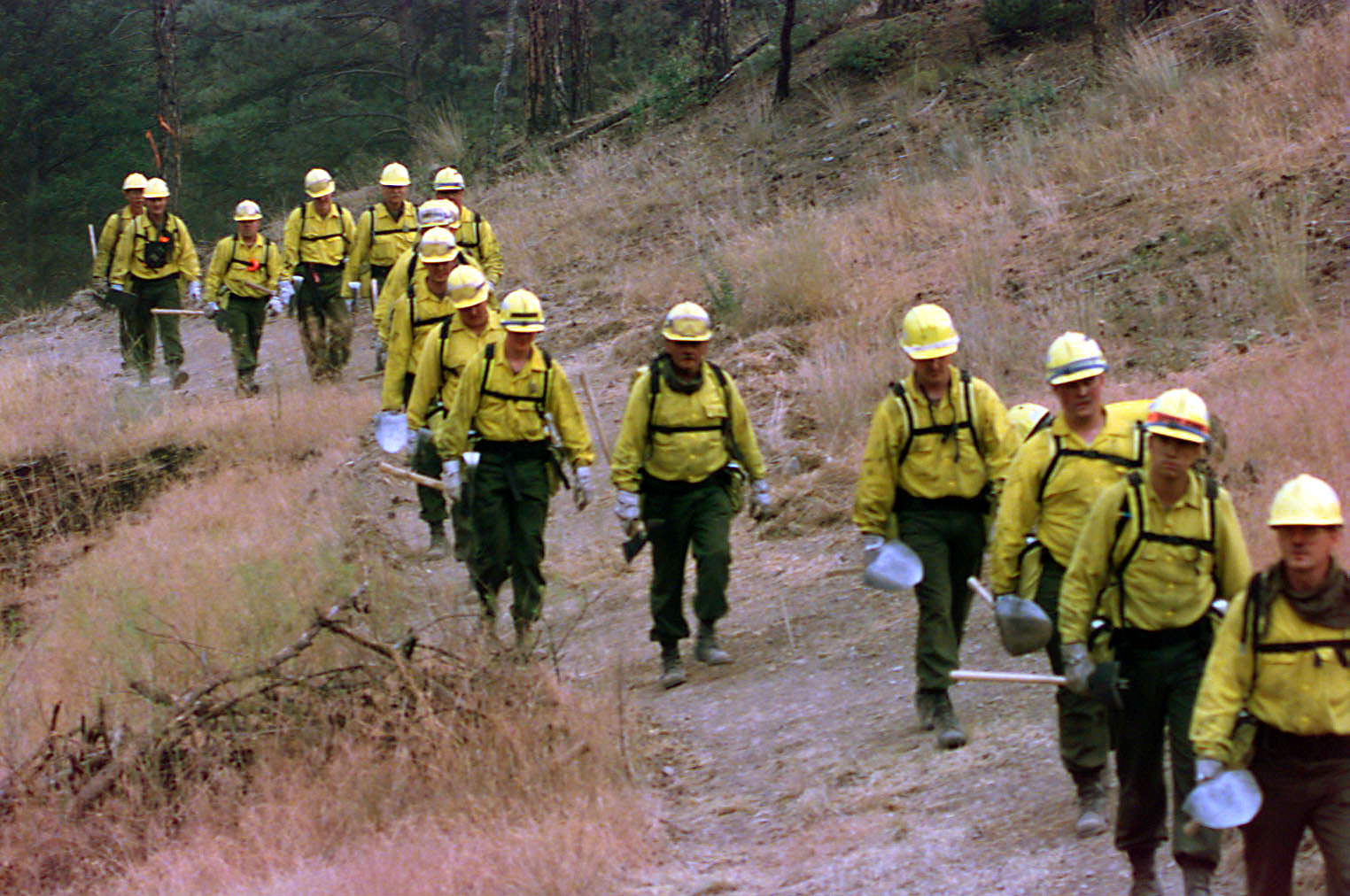 Soldiers from Company B, 1st Battalion, 163rd Mechanized Infantry, Montana Army National Guard return to their drop point following a day of fighting the Cave Gulch Fire located near Canyon Ferry, Mont. on Aug. 2, 2000. More than 2,300 servicemembers from the Army, Marines, Air and Army Guard and Air Force Reserve are conducting firefighting and support operations for the Western wildfires in response to requests from the National Interagency Firefighting Center in Boise, Idaho, and as directed by the governors of several states.